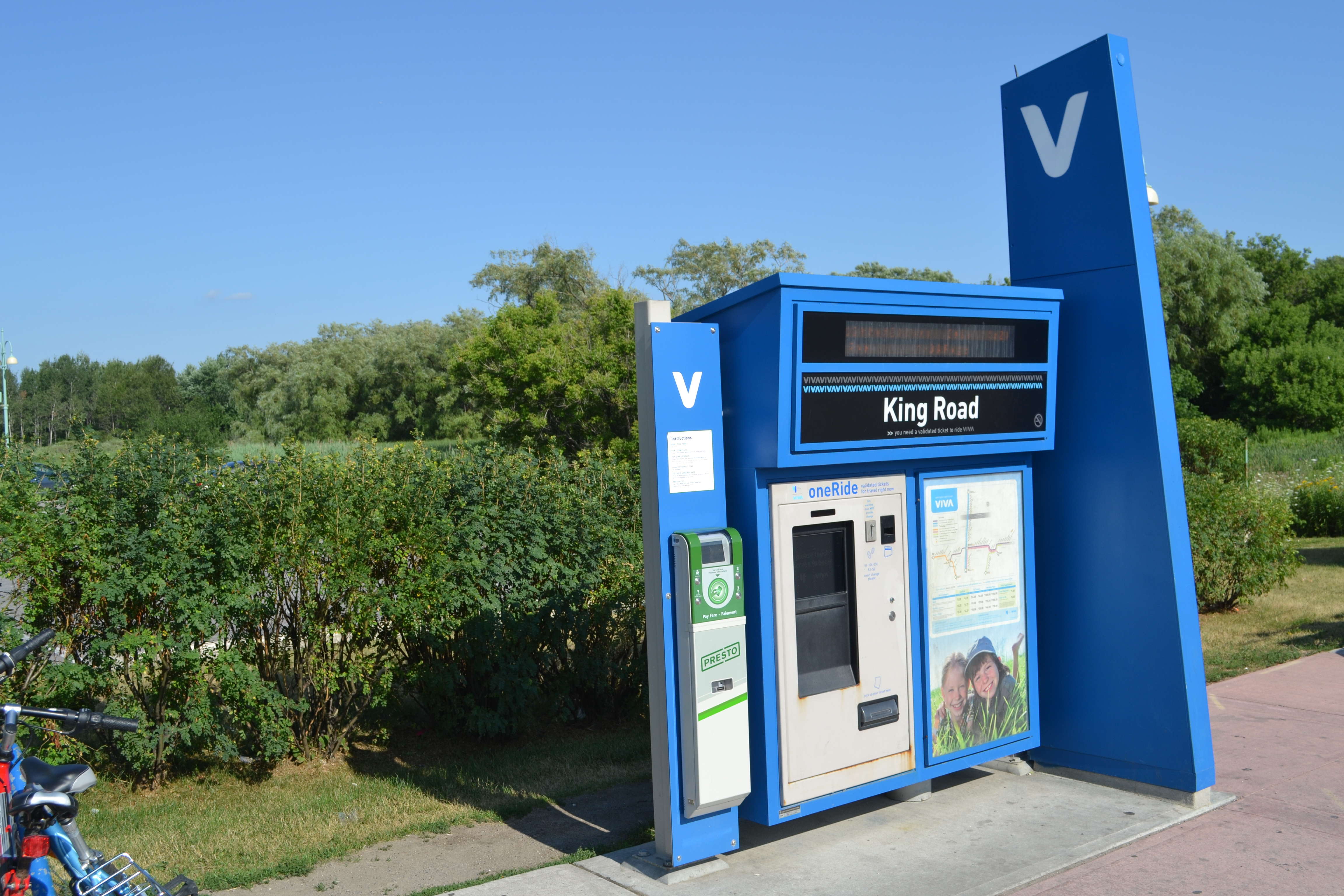 King Road VIVA station.